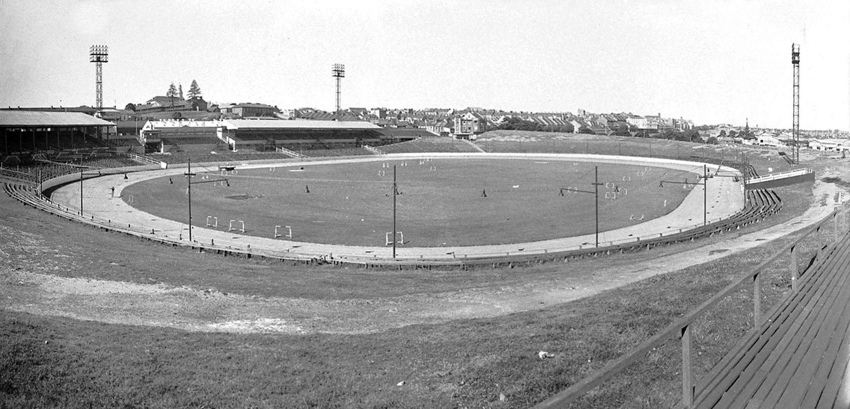 View of the Sydney Sports Ground at Moore Park. The image is a composite of two (public domain) images by Sam Hood that were taken in 1937.